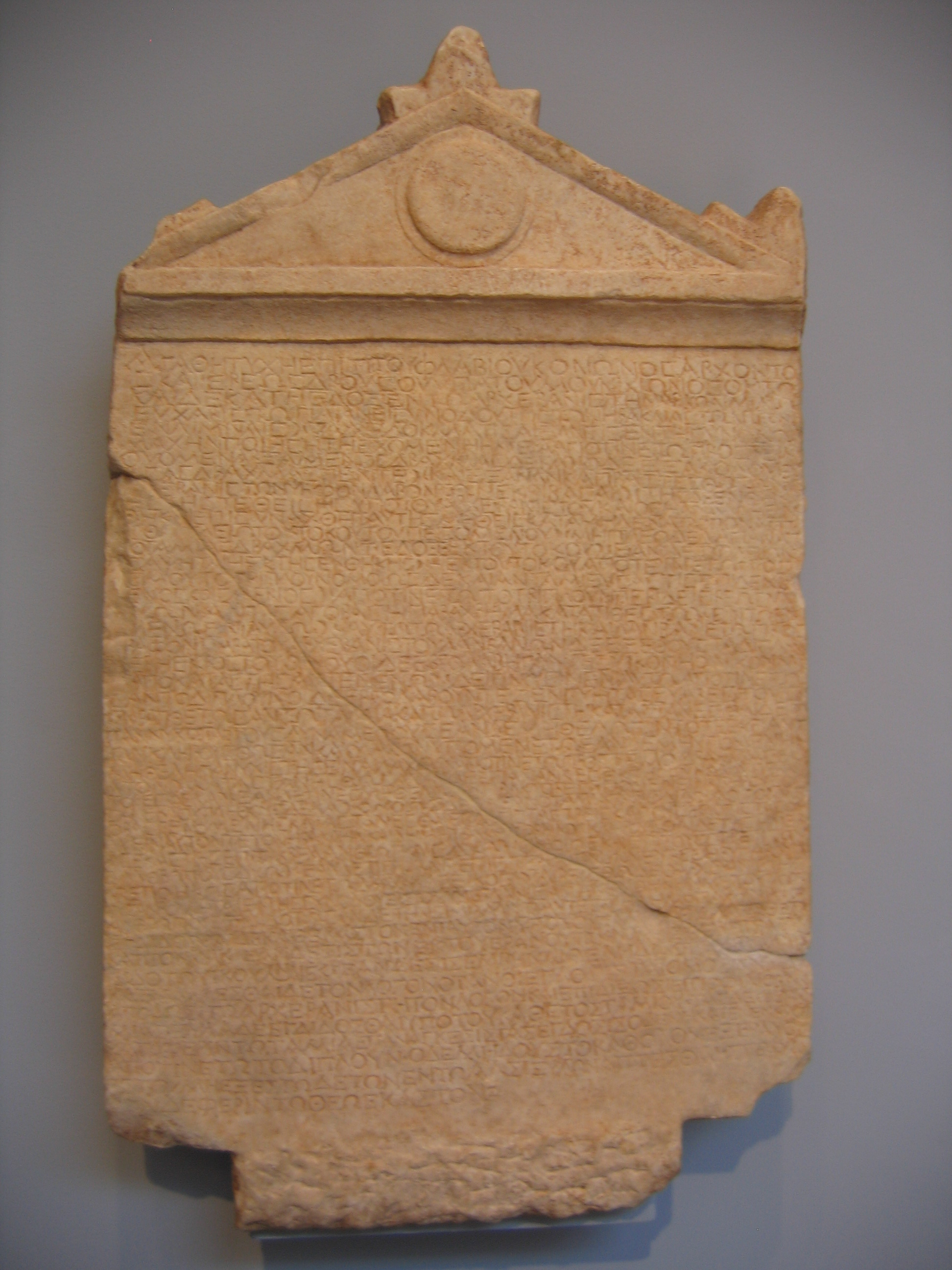 Statutes of a religious association (Roman, A.D. 100-120, marble). The inscribed slab, part of the collection of the J. Paul Getty Museum in Malibu, California, preserves the statutes of an eranos (religious association) whose members worshipped the Greek hero Herakles.